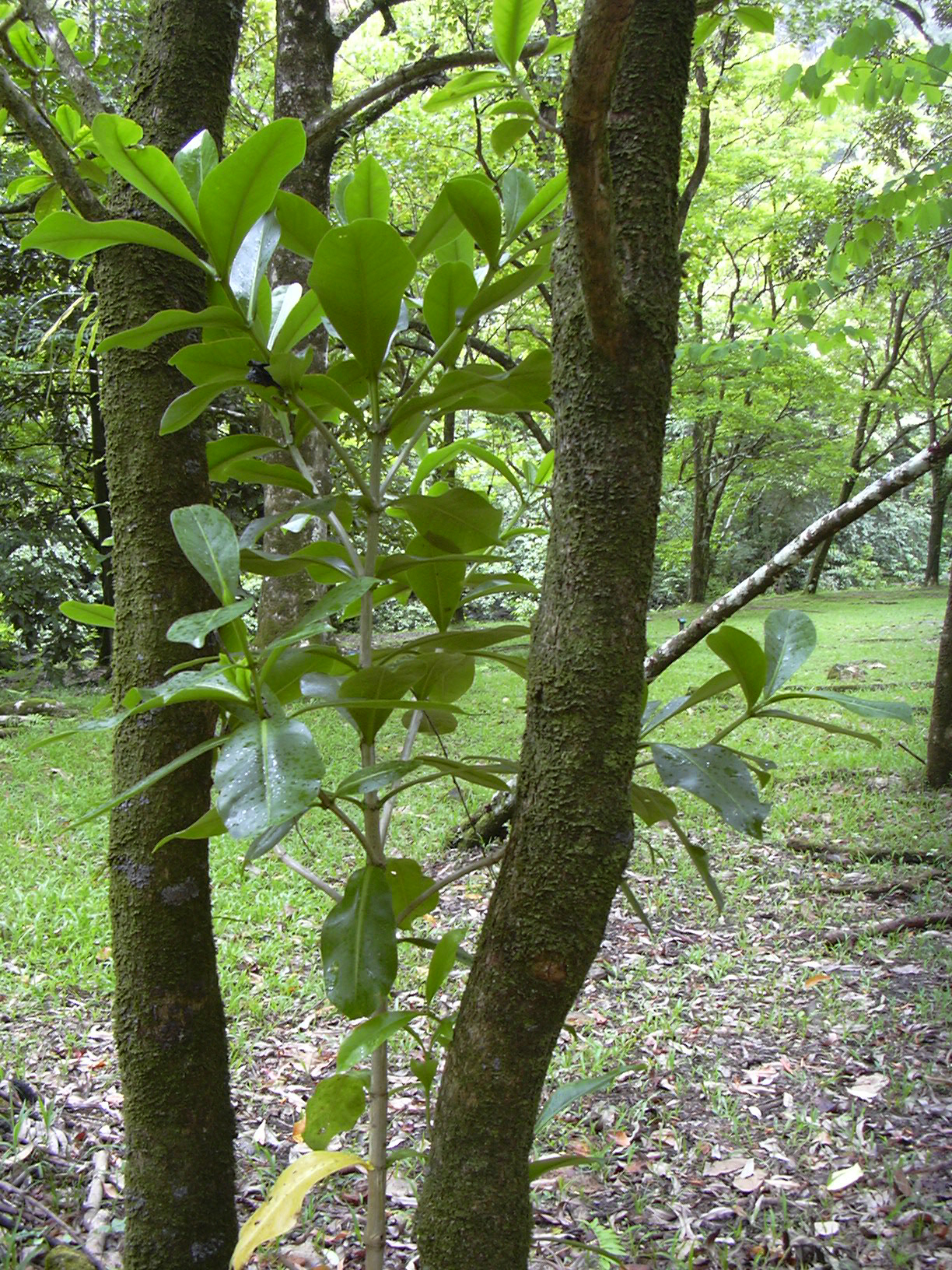 Fagraea berteroana (habit). Location: Maui, Keanae Arboretum